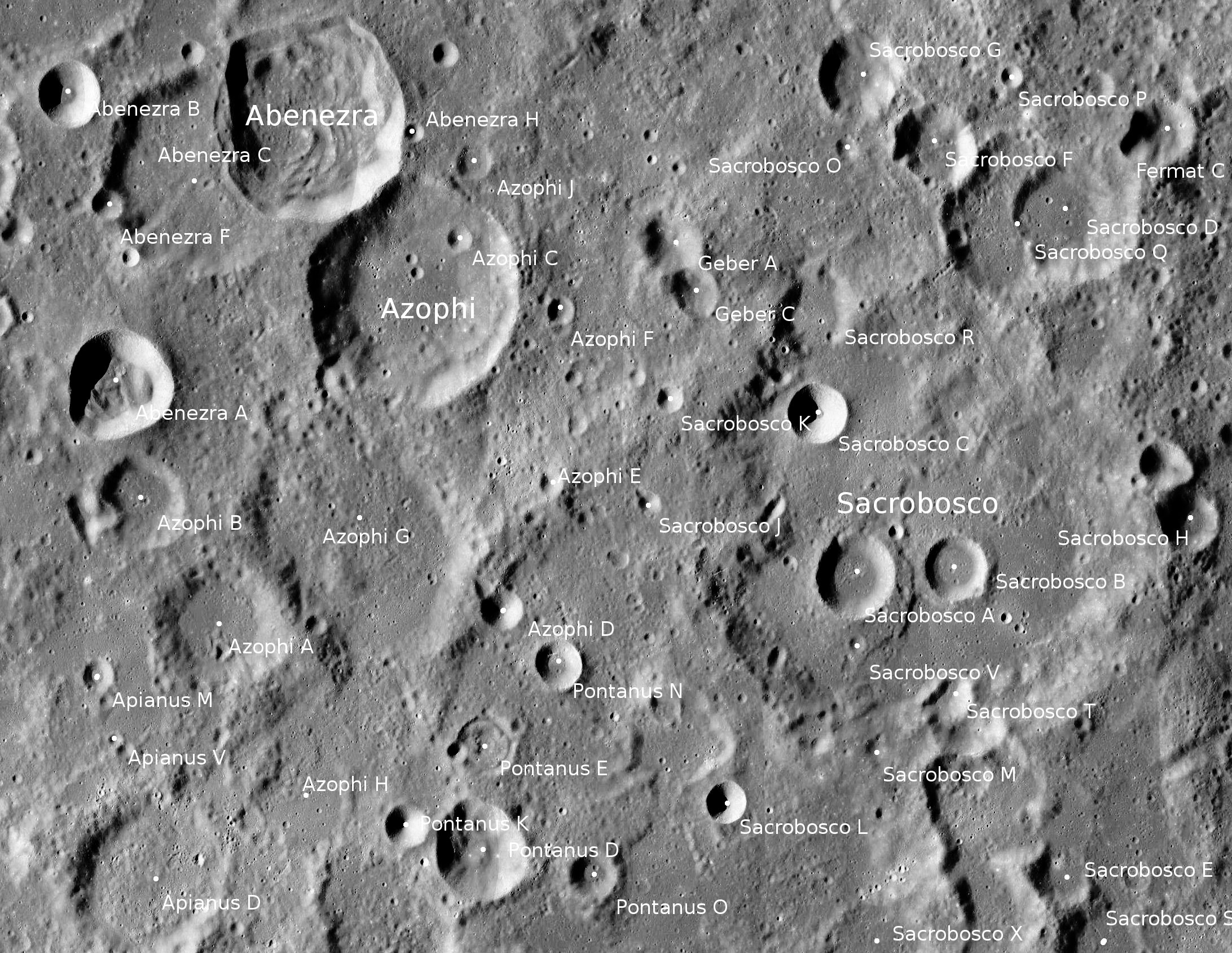 Craters Sacrobosco, Abenezra and Azophi (detail of LRO - WAC global moon mosaic; Mercator projection)